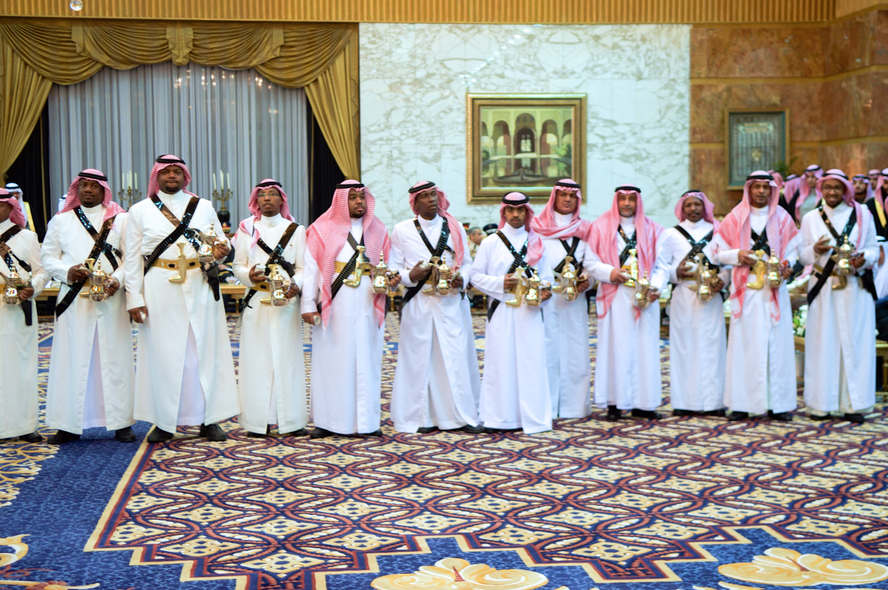 Attendants in a traditional coffee ceremony prepare to serve President Obama, First Lady Michelle Obama, U.S. Secretary of State John Kerry, and other dignitaries after they welcomed the new King Salman of Saudi Arabia at the Erqa Royal Palace in Riyadh, Saudi Arabia, on January 27, 2015, and after they extended condolences to the late King Abdullah. [State Department photo/ Public Domain]